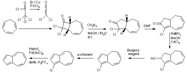 Azulene synthesis